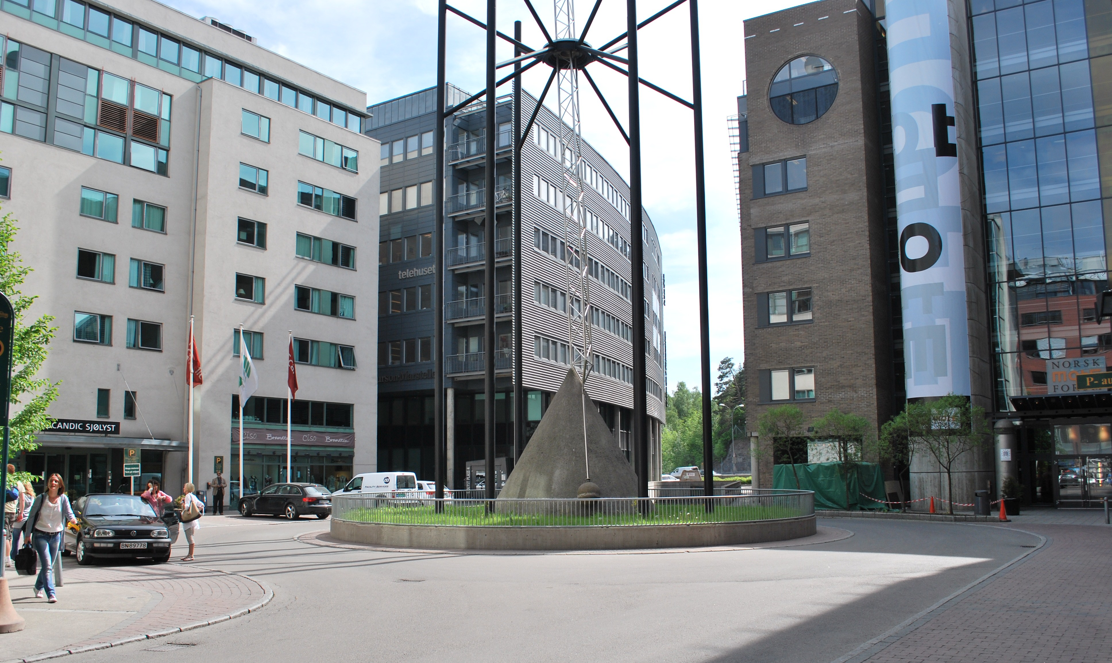 Sjølyst plass (square), Skøyen, Oslo